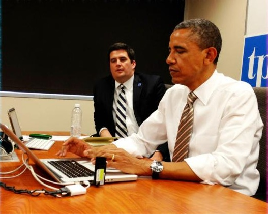 Barack Obama tweeting on May 24, 2012 in response to hashtagged questions